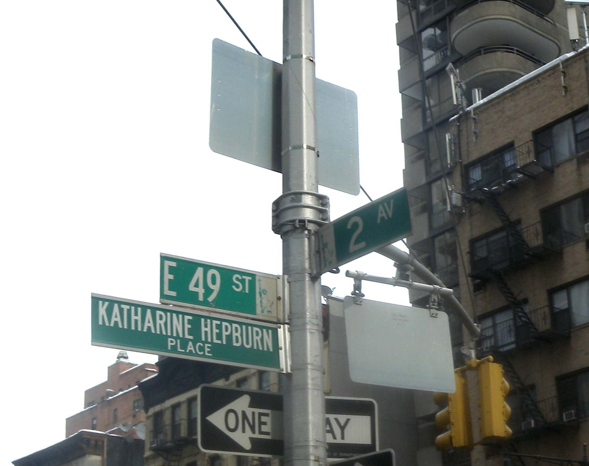 Looking east and up at street sign for Katharine Hepburn Way on a cloudy day.